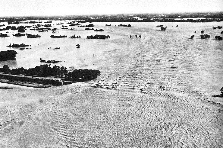 1947 Typhoon Kathleen damage at Kurihashi